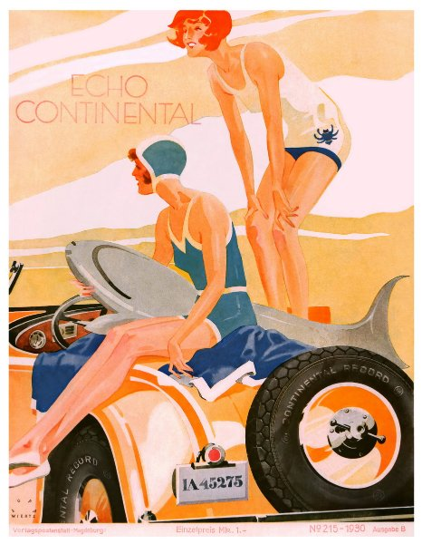 Cover of the magazine Echo Continental, edited by Continental AG with a painting by Jupp Wiertz